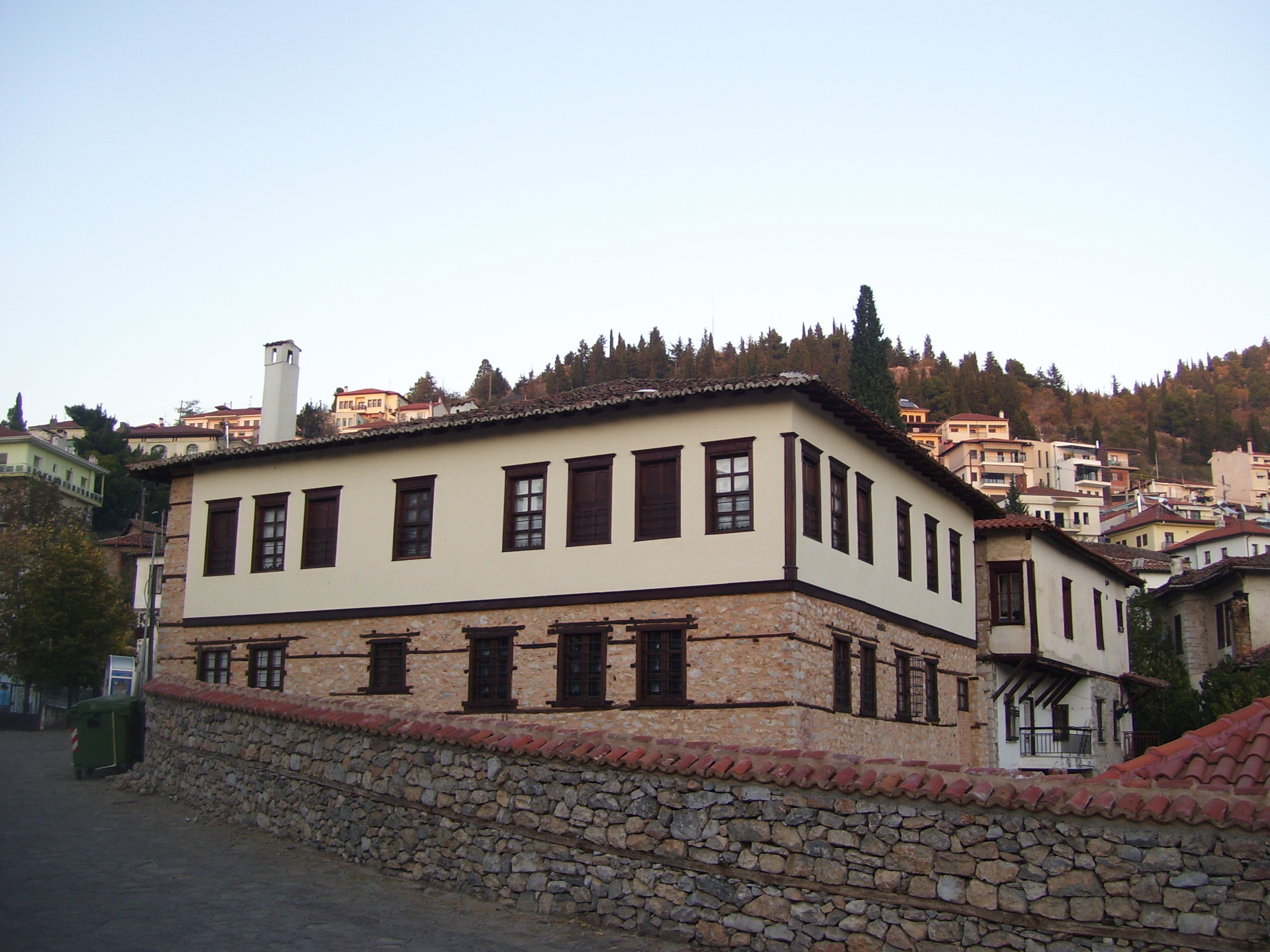 The house of Anastasios Picheon, Kastoria, Greece, today a museum.